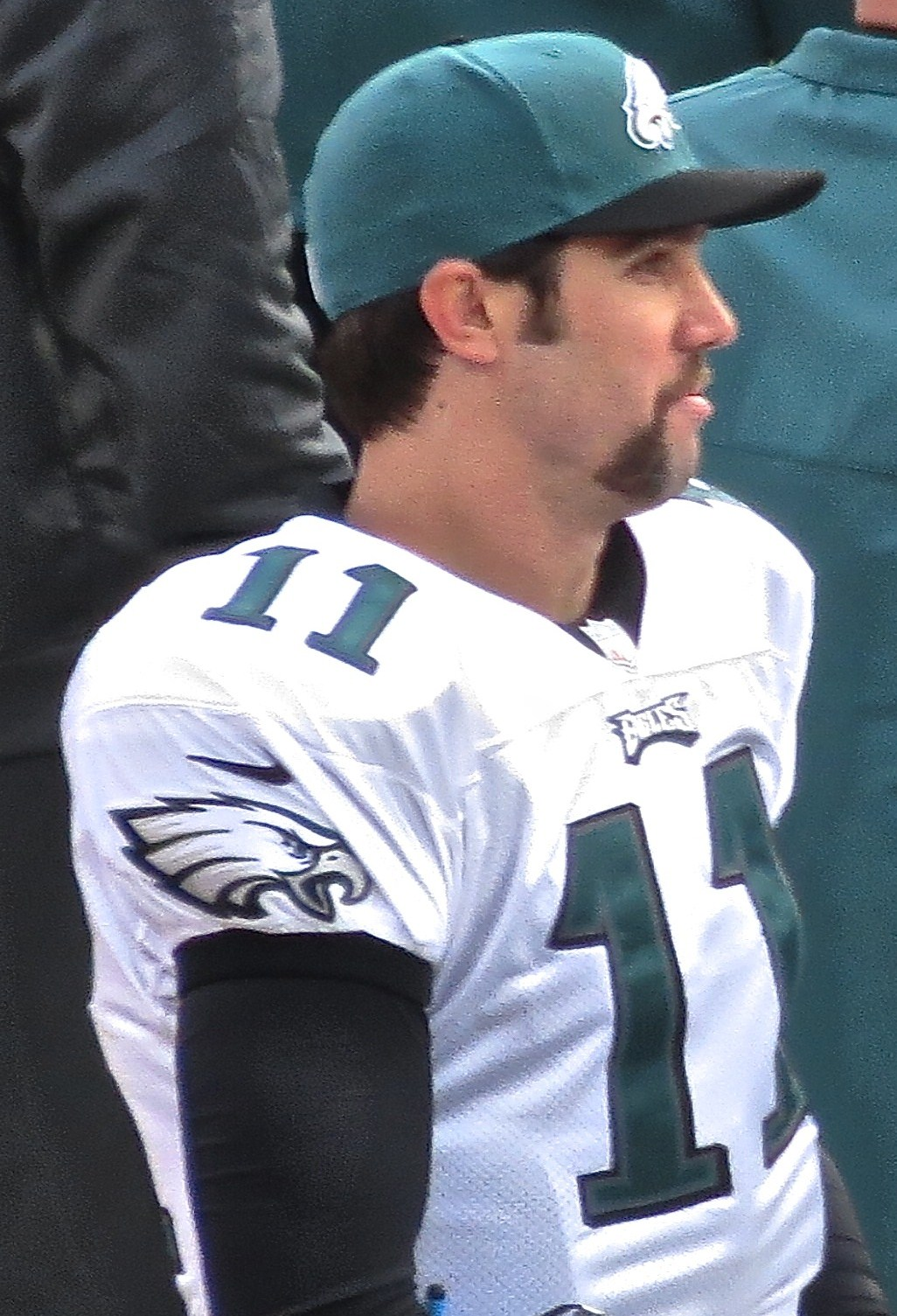 Photo of Trent Edwards & Nick Foles during the Eagles vs Redskins game at Fedex Field on November 18, 2012.